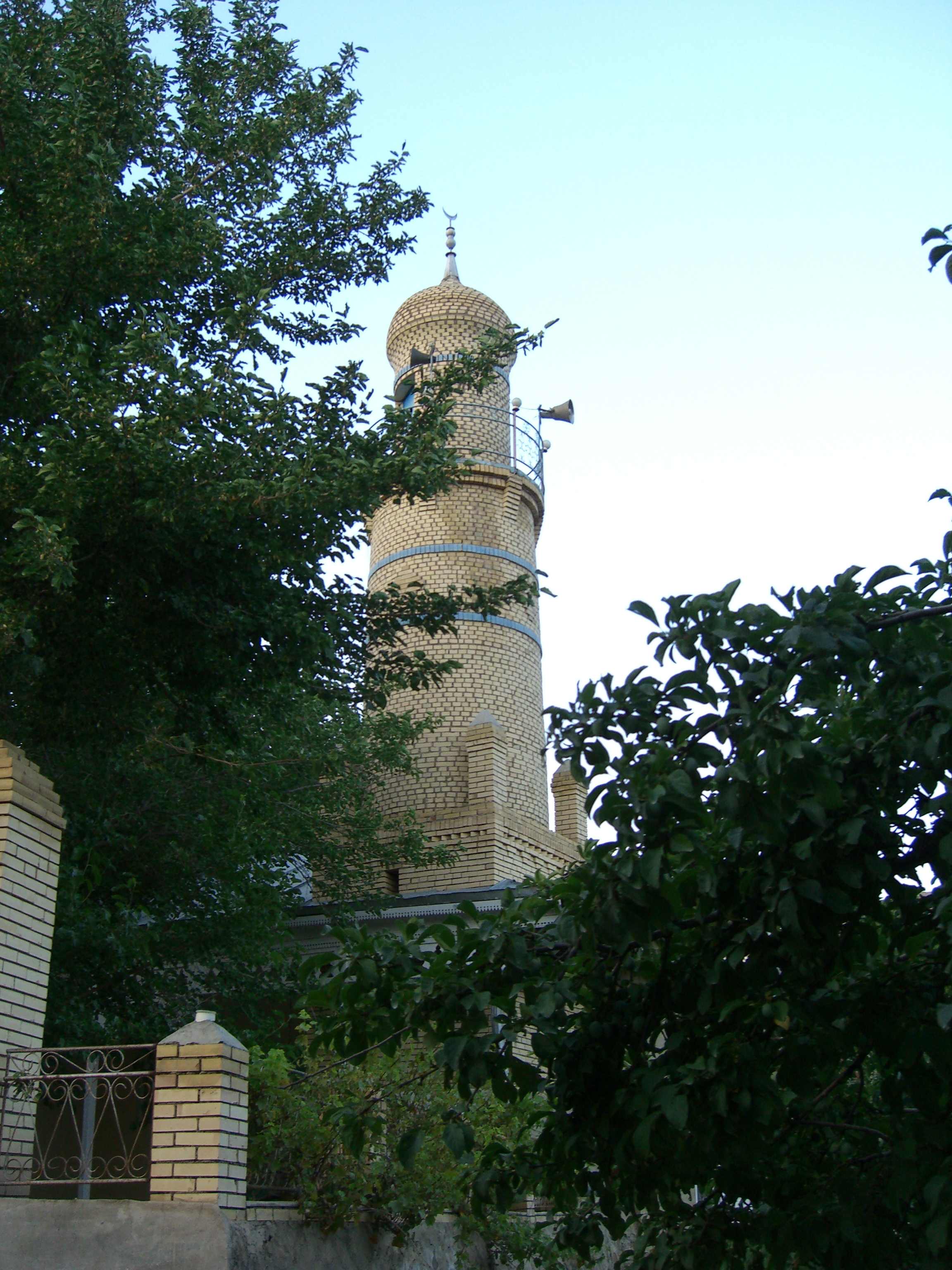 Dirnis Mosque in Ordubad Rayon of Azerbaijan. 19th c.